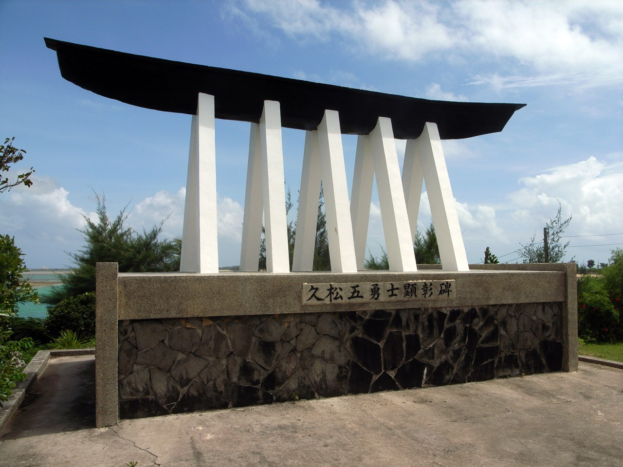 Monument for the Five Braves of Hisamatsu, Miyako Island, Okinawa Prefecture, Japan